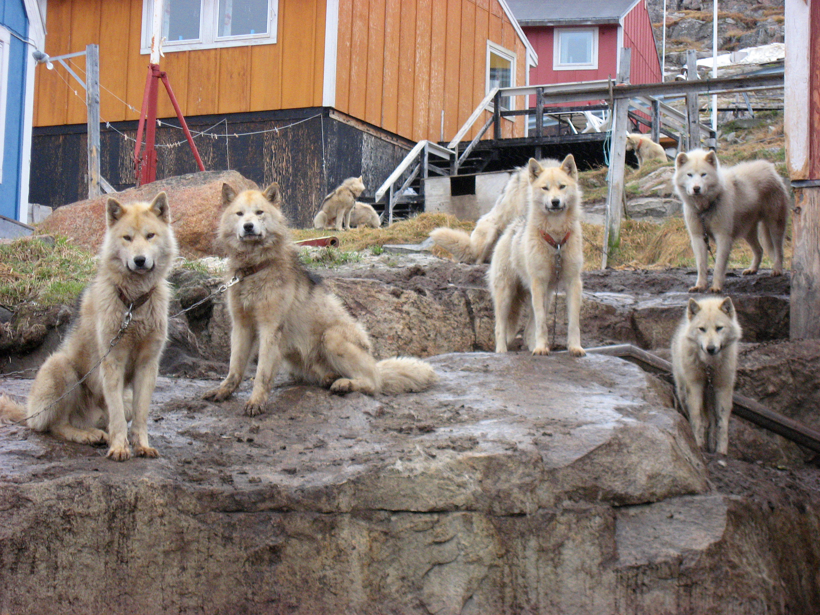 Greenland dogs chained in residential area in Upernavik, Greenland.